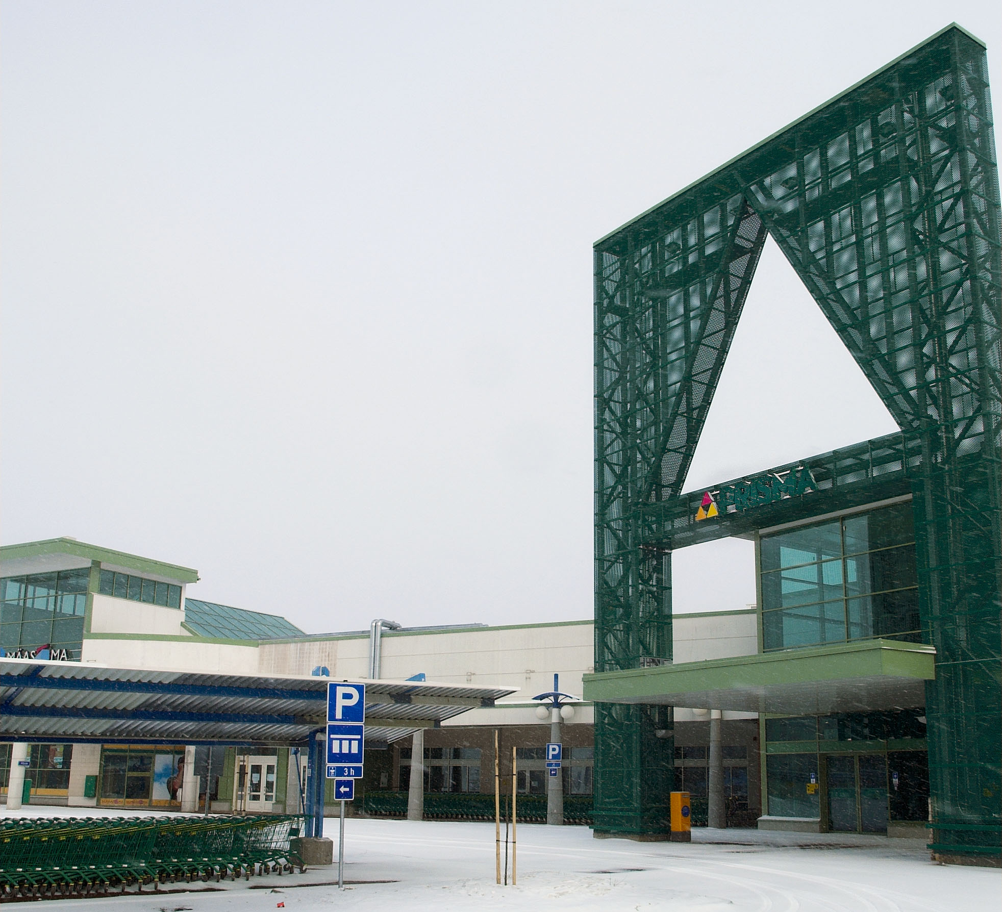 Main entrance of hypermarket Prisma in Savilahti, Kuopio, Finland.